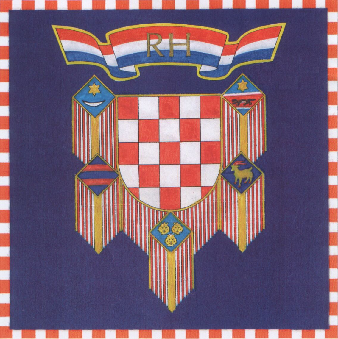 Presidential Flag of the Republic of Croatia